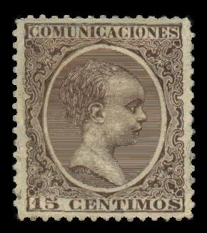 Spanish stamp 15c Alphonso XIII as a child, issued 1890